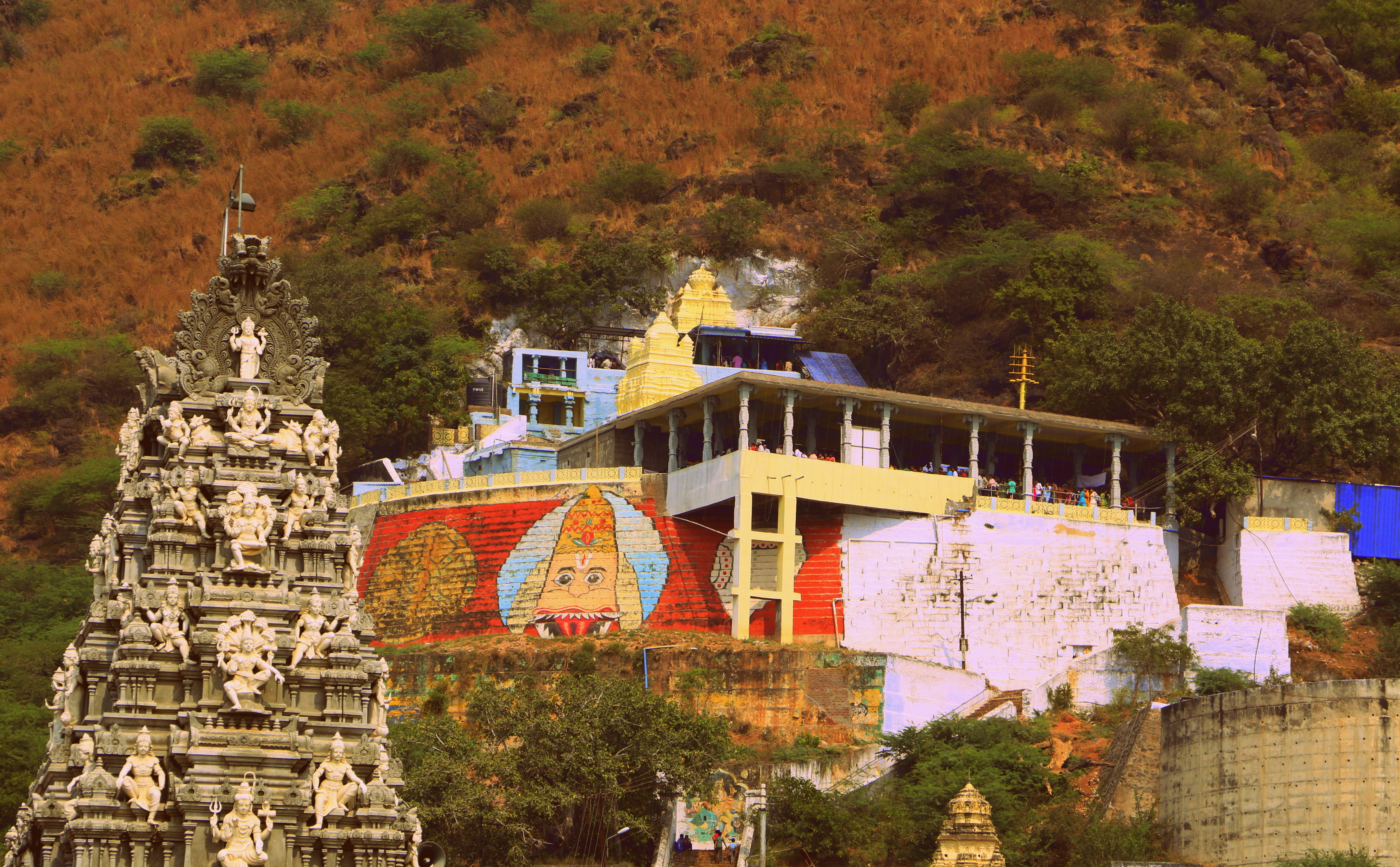 Located on an Auspicious Mangalagiri Hill .